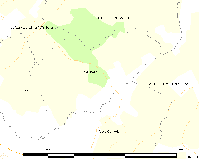 Map of French municipality